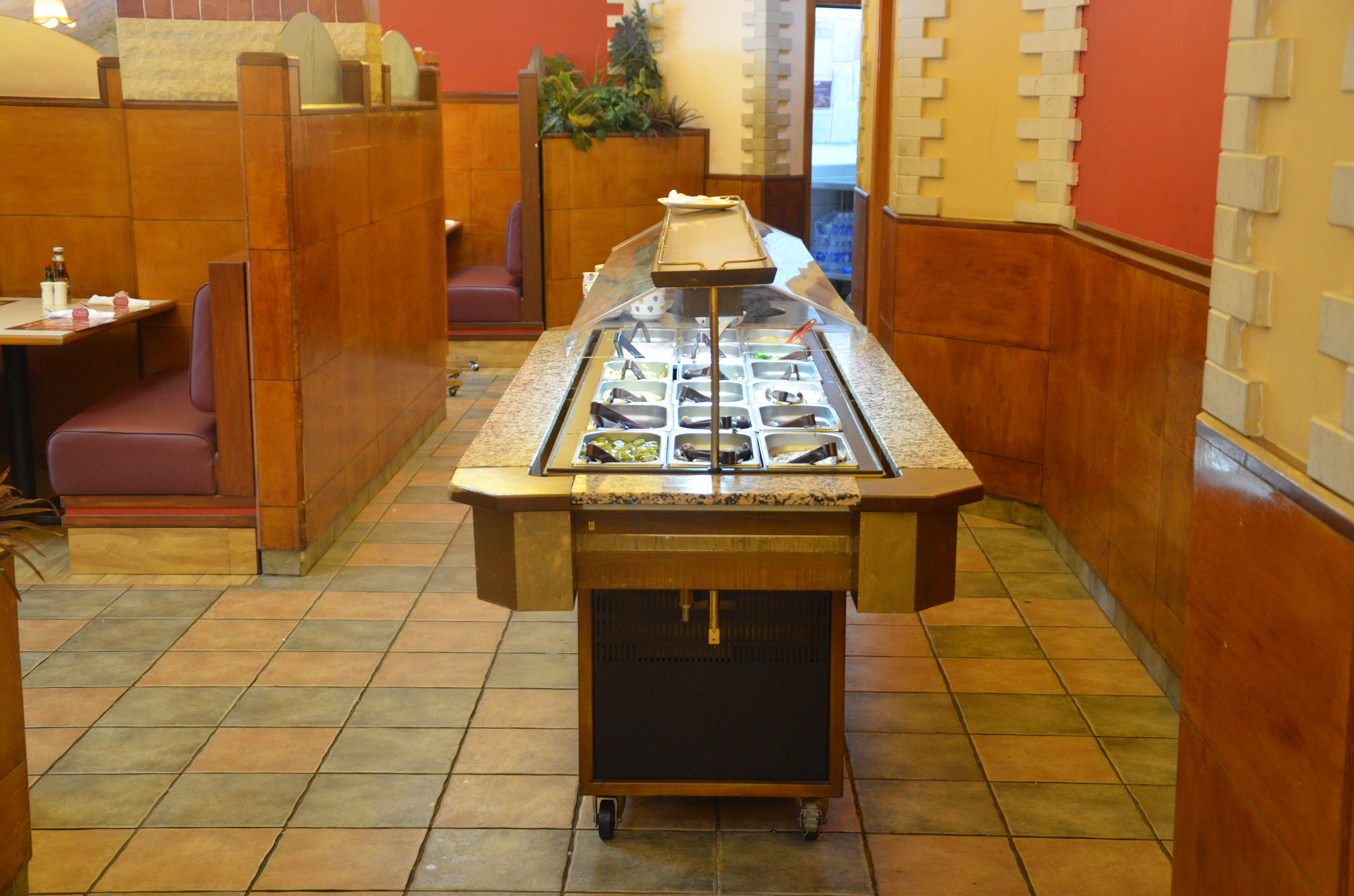 Pizza Hut Restaurant Riyadh, Salad Bar